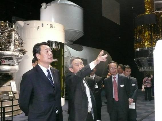 Banri Kaieda, Minister of State for Science and Technology Policy, inspected Tsukuba Space Center, Japan Aerospace Exploration Agency in Tsukuba City, Ibaraki Prefecture on October 10, 2010.